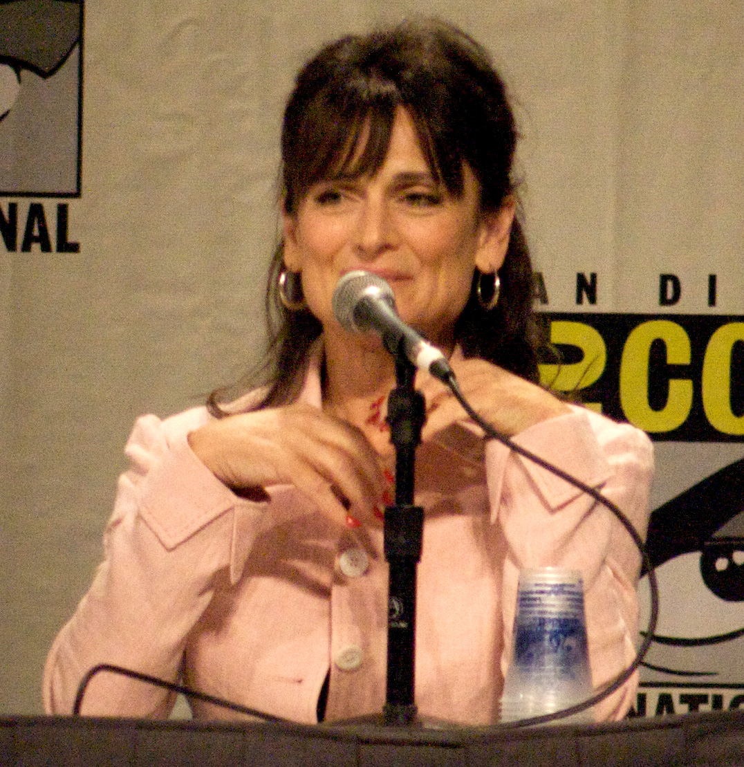 Cristine Rose, Comic Con 2008